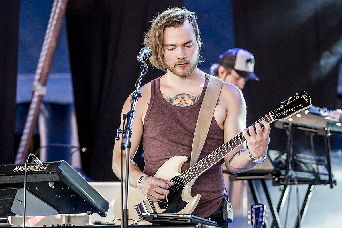 Ásgeir Trausti playing at Roskilde Festival on July 6, 2013